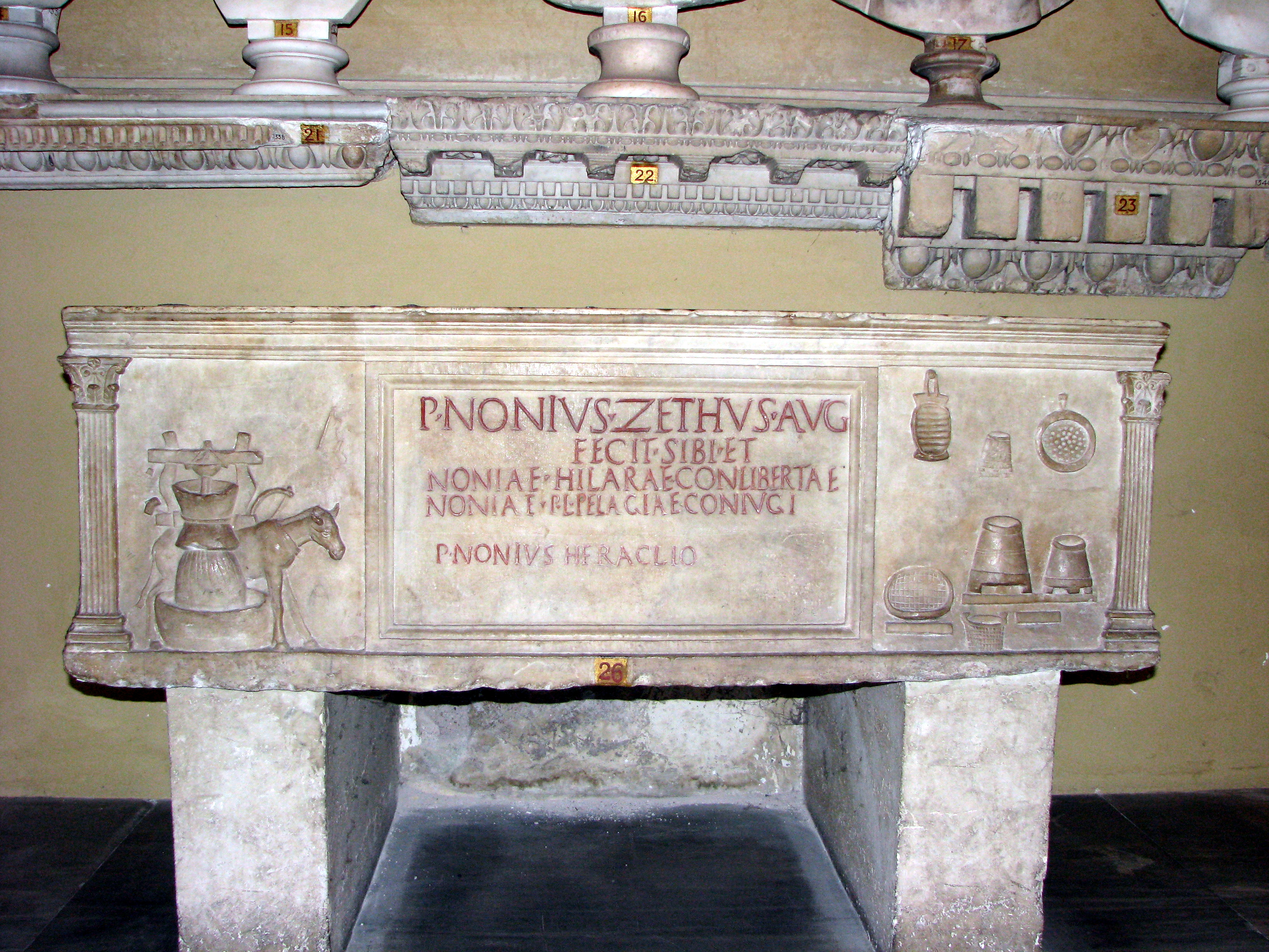 Urn holder of the miller Publius Nonius Zethus, found in Ostia Antica, now in the Museum of the Vatican. The Urn holder contains 8 slots for urns, with the remains of one urn still in place. The front shows milling operations on the left and the tools of a baker on the right. From the 1st century AD. The animal is an ass. CIL XIV 393: P(ublius) Nonius Zethus Aug(ustalis) / fecit sibi et / Noniae Hilarae conlibertae / Noniae P(ubli) l(ibertae) Pelagiae coniugi / P(ublius) Nonius Heraclio